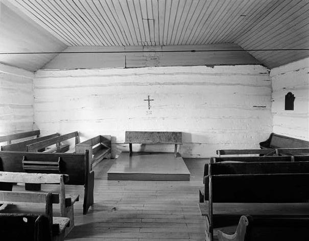 Historic photograph of the exterior of Mars Hill Church in rural Wapello County, Iowa. Listed on the National Register of Historic Places.